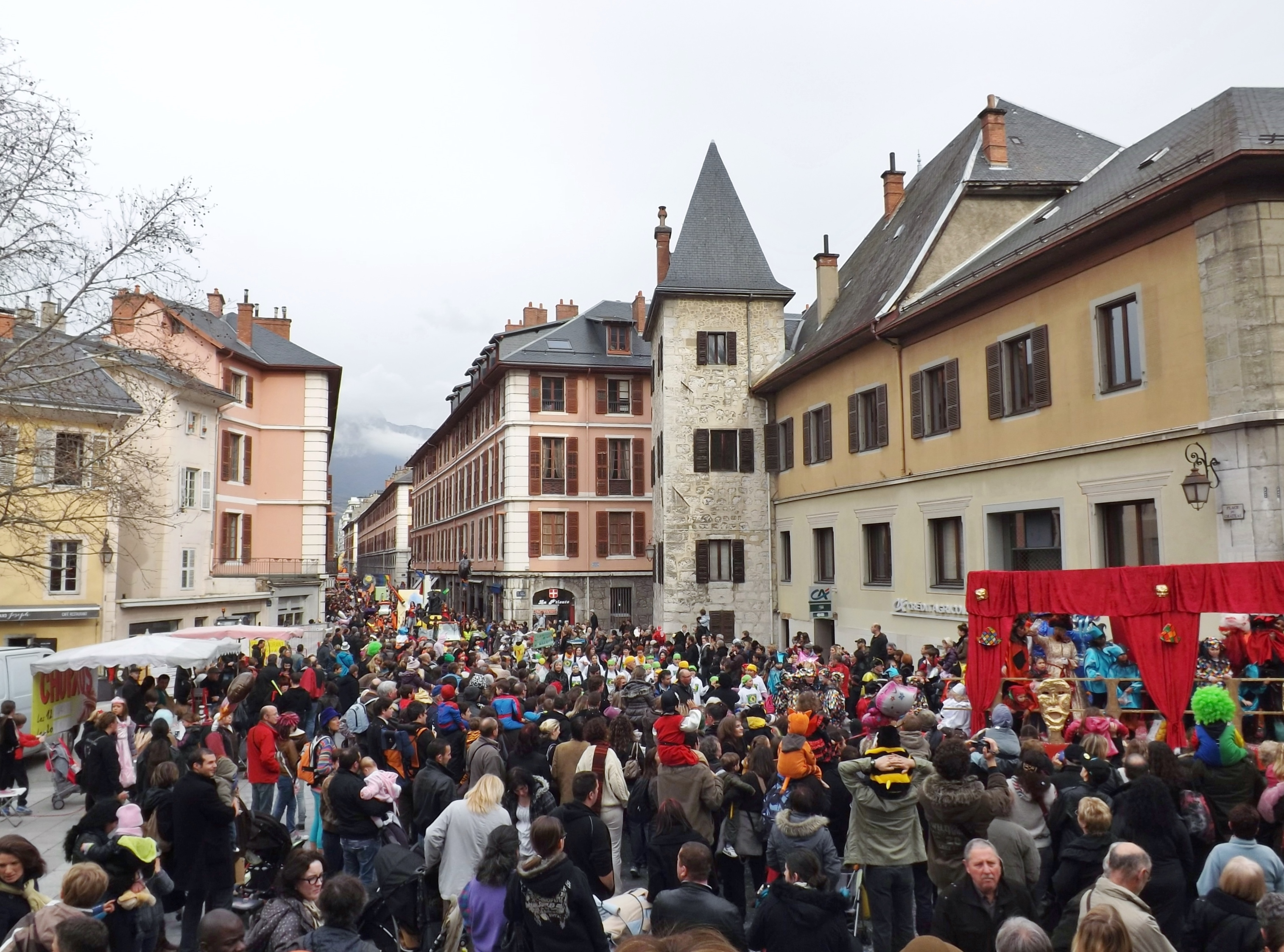 Sight of the 2013 Carnaval parade of Chambéry (Savoie, France), standing here at the foot of the city castle.